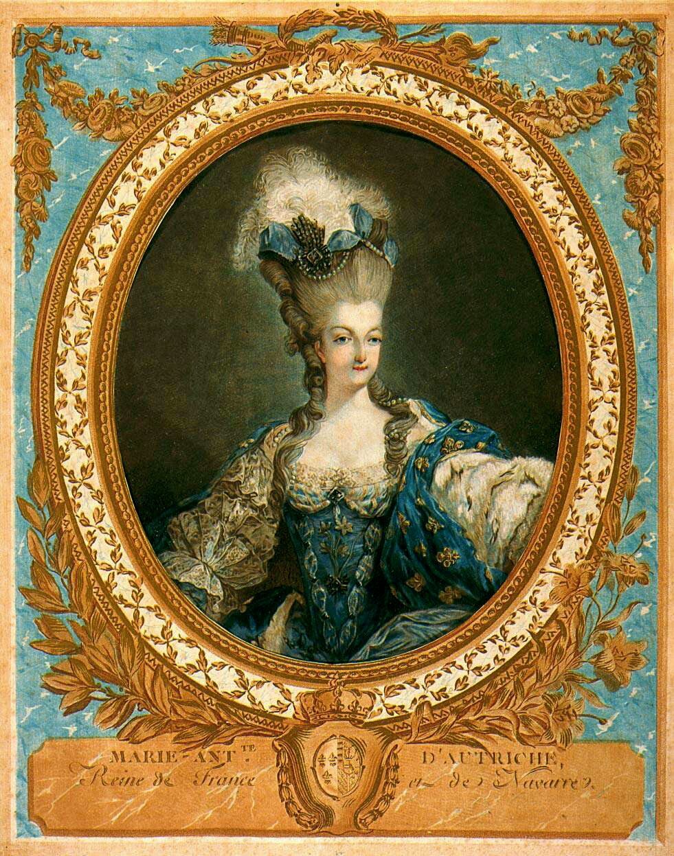 Portrait of Marie Antoinette by François Janinet.